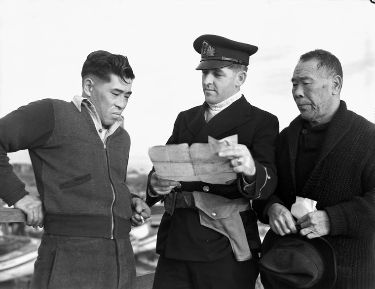 R.C.N. officer questioning Japanese-Canadian fishermen while confiscating their boat.